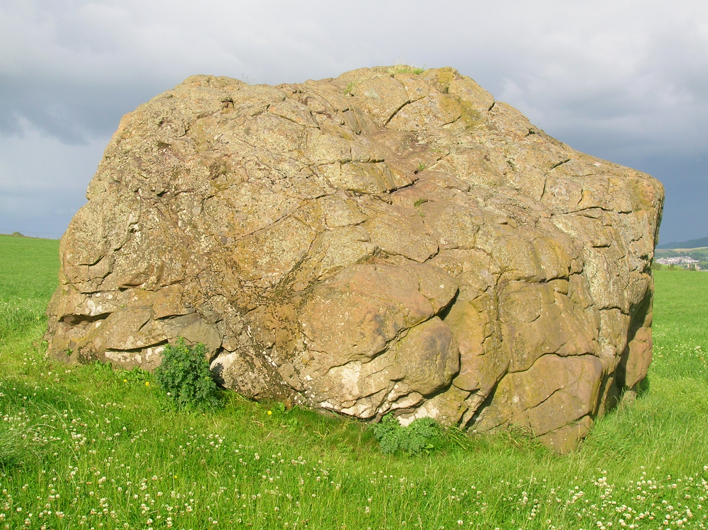 The Clochoderick Logan or rocking stone